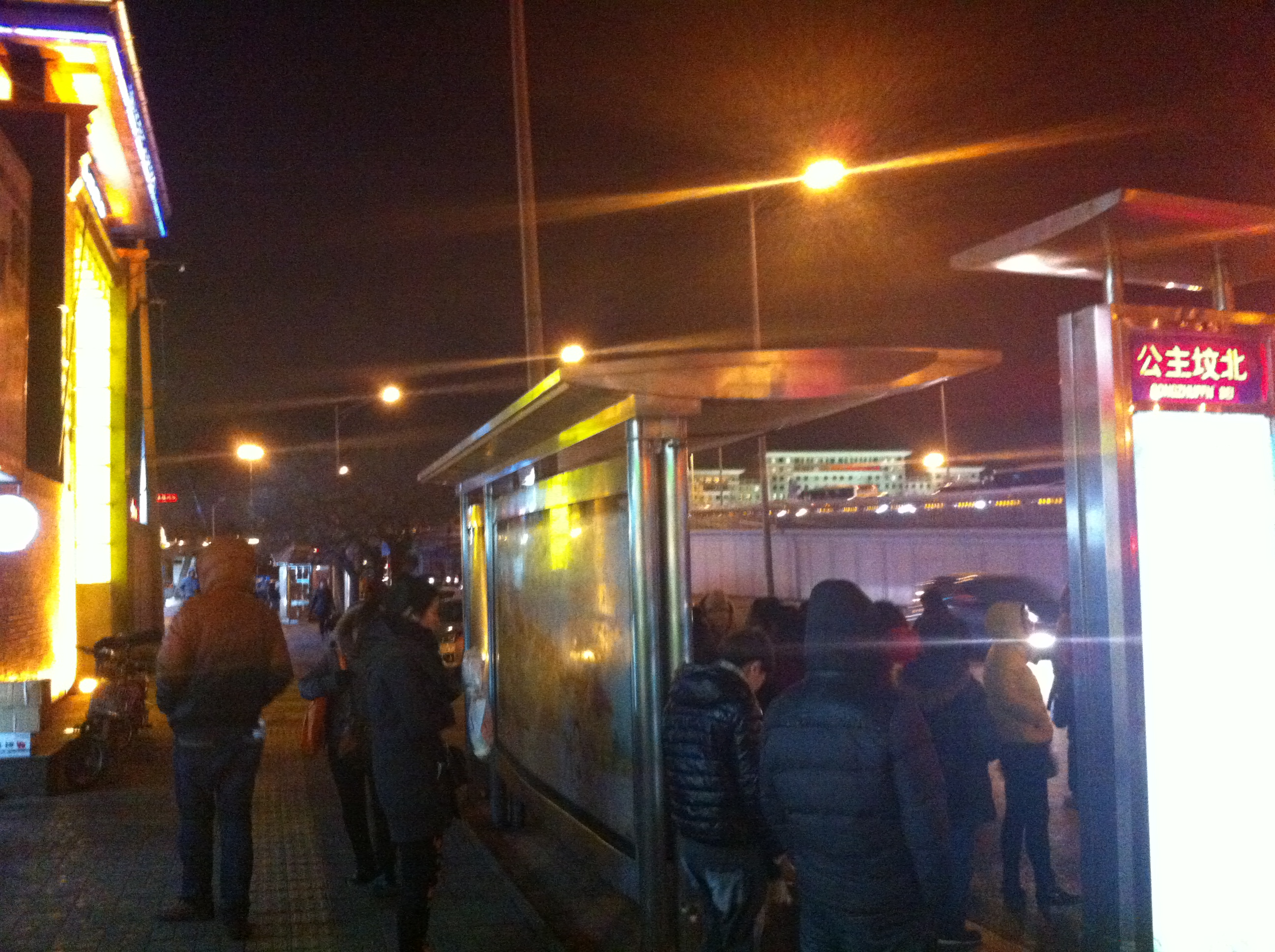 The busy Gongzhufen North on the last day of 2014.